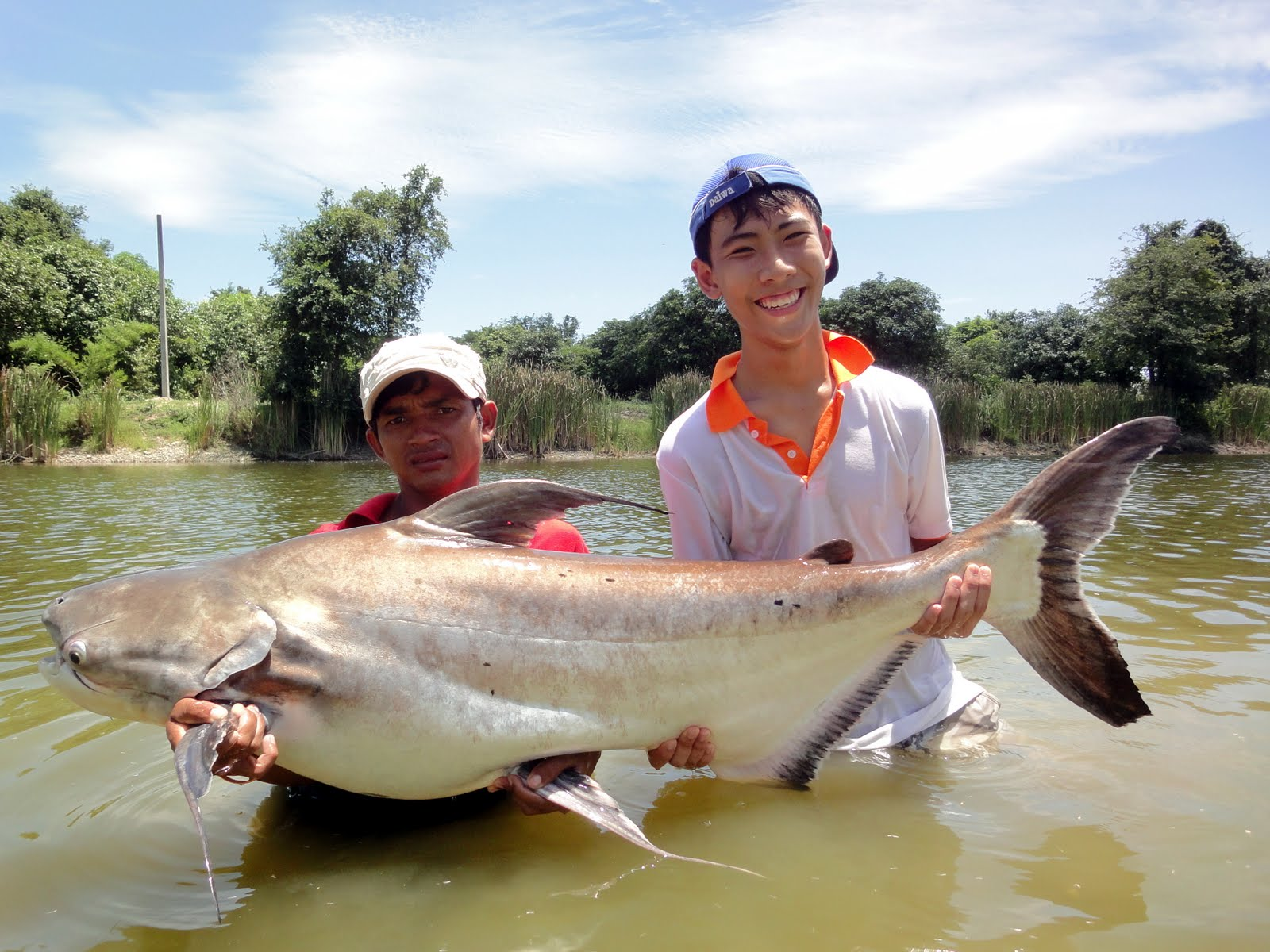 Pla Pangasius sanitwongsei / Giant pangasius / Chao Praya Catfish 70kg in the Greenfield Valley Specimen lake 2 Hua Hin Thailand